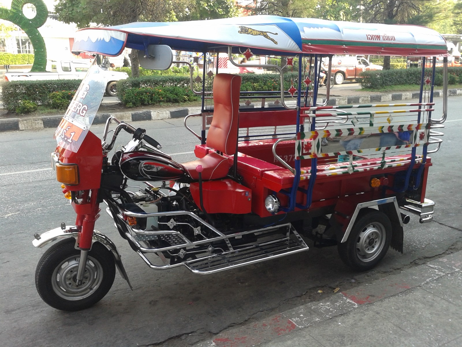 Photo taken in Udon Thani, Thailand in Dec 2015 depicting the tuk-tuk type common in that city at that time. I have not seen this style of vehicle used elsewhere in Thailand.